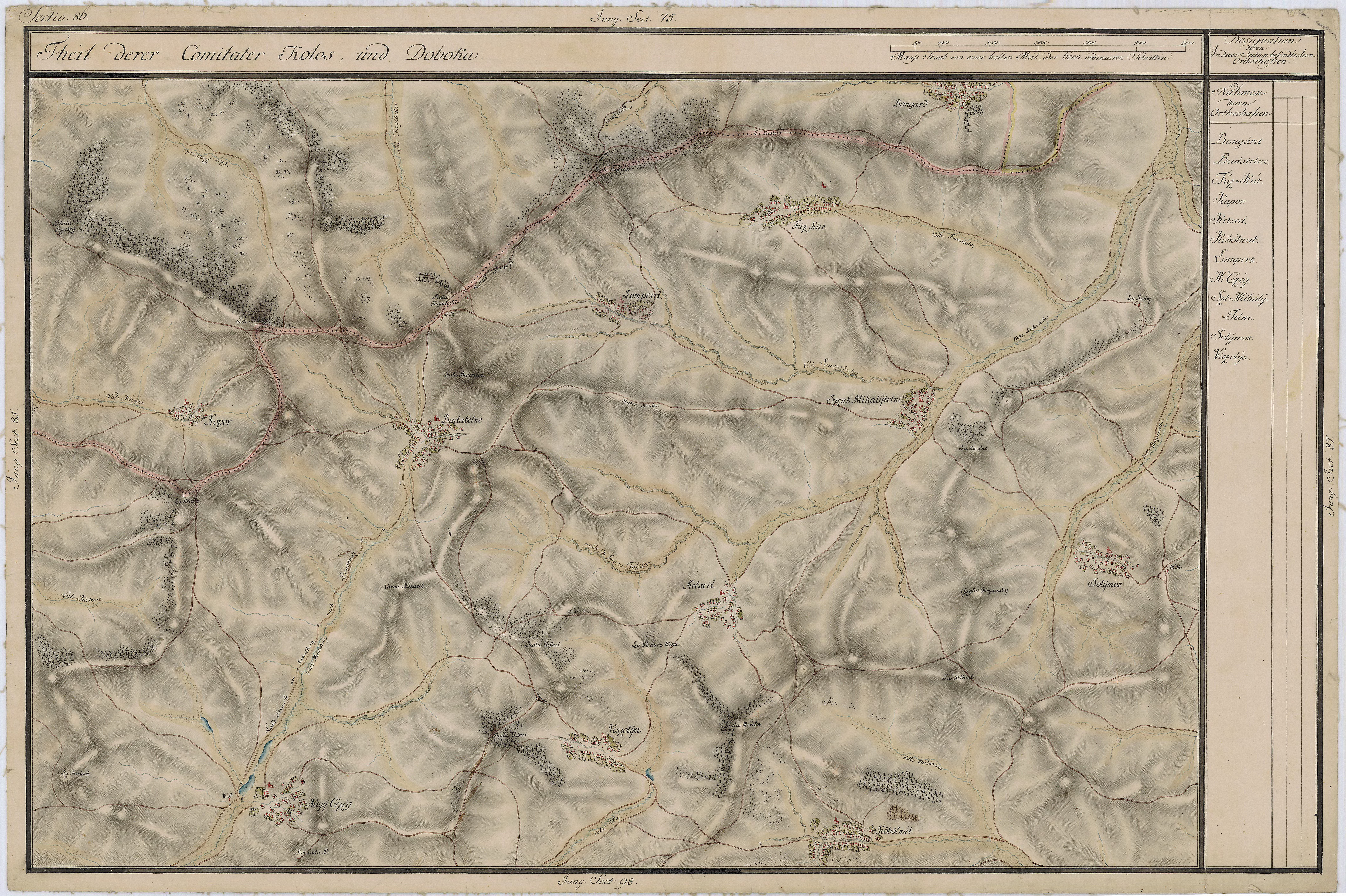 Grand Duchy of Transylvania, 1769-1773. Josephinische Landaufnahme pg.086